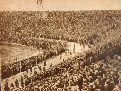 San Lorenzo de Almagro's first stadium, known as Viejo Gasómetro.